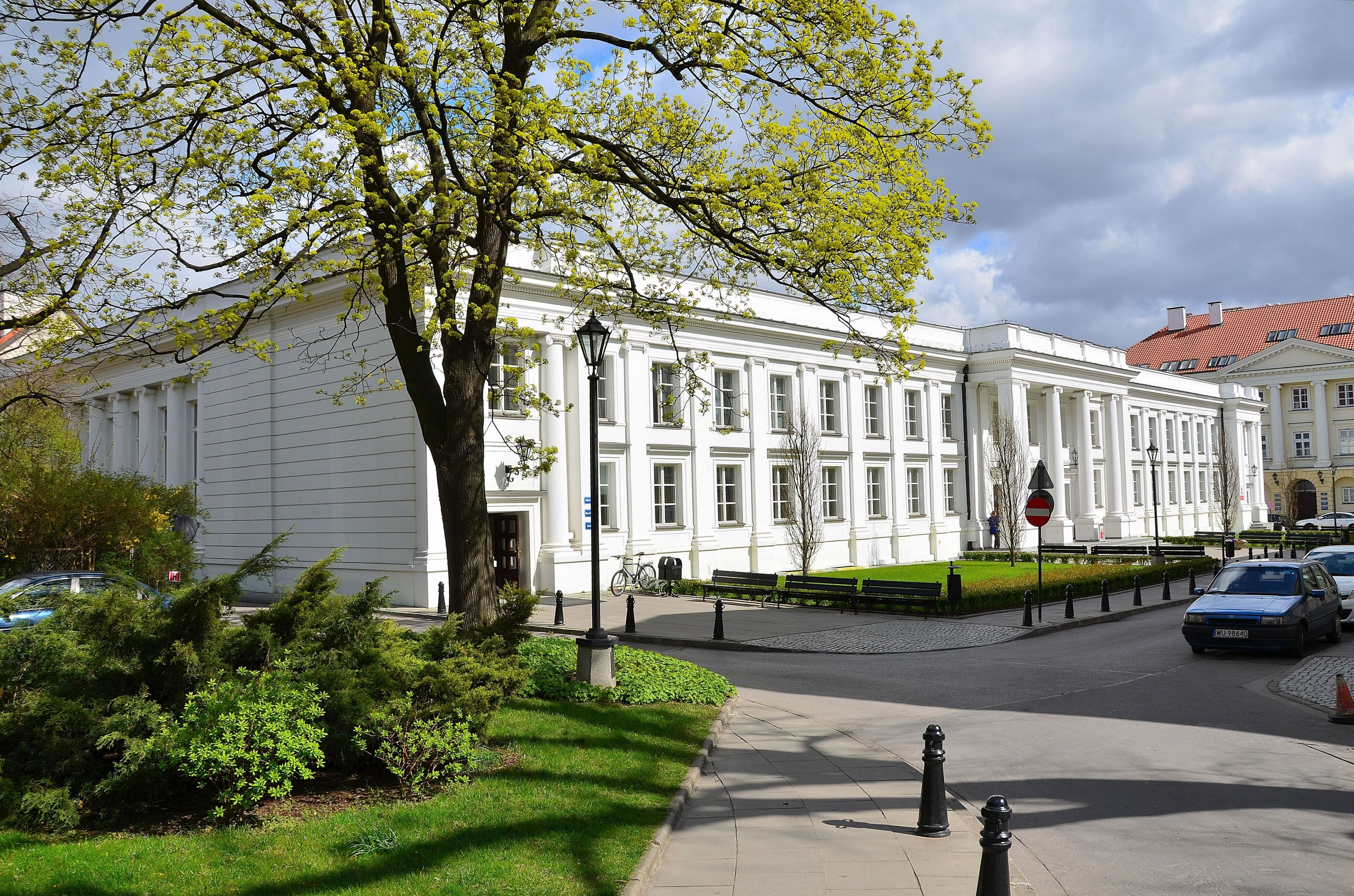 Auditorium Maximum buiding, Warsaw University